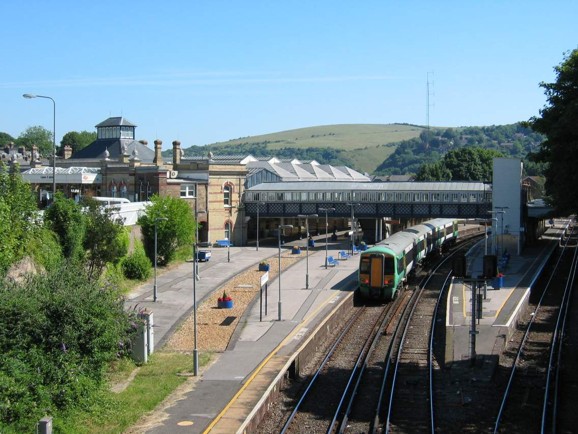 Picture of Lewes railway station taken by me. Note the disused trackbed filled to platform level, surfaced with gravel.